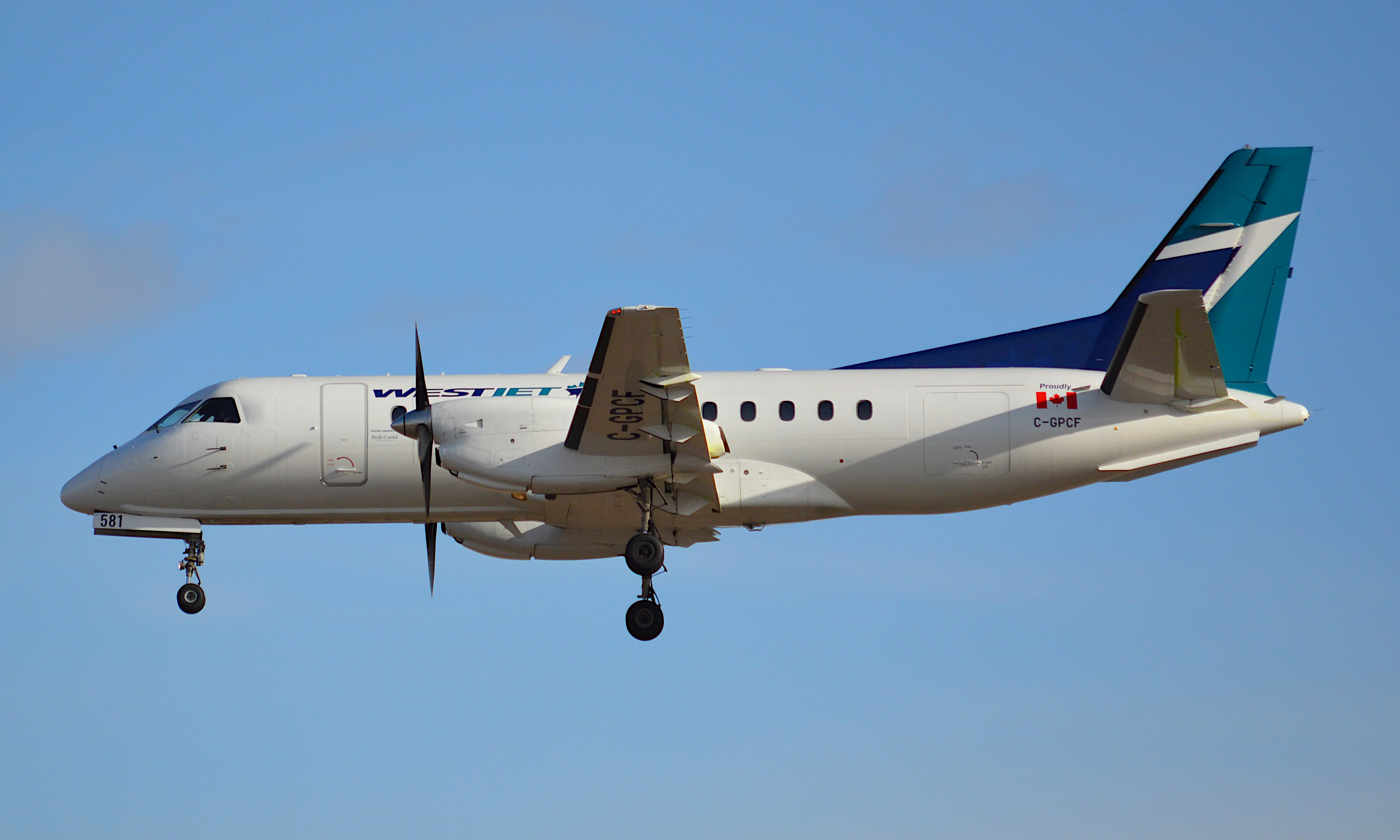 WestJet Link (operated by Pacific Coastal Airlines) Saab 340 C-GPCF landing on runway 35L at Calgary International Airport, November 9, 2018.